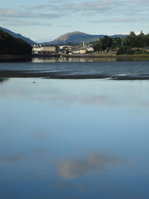 Approach to Donegal Town by Sea